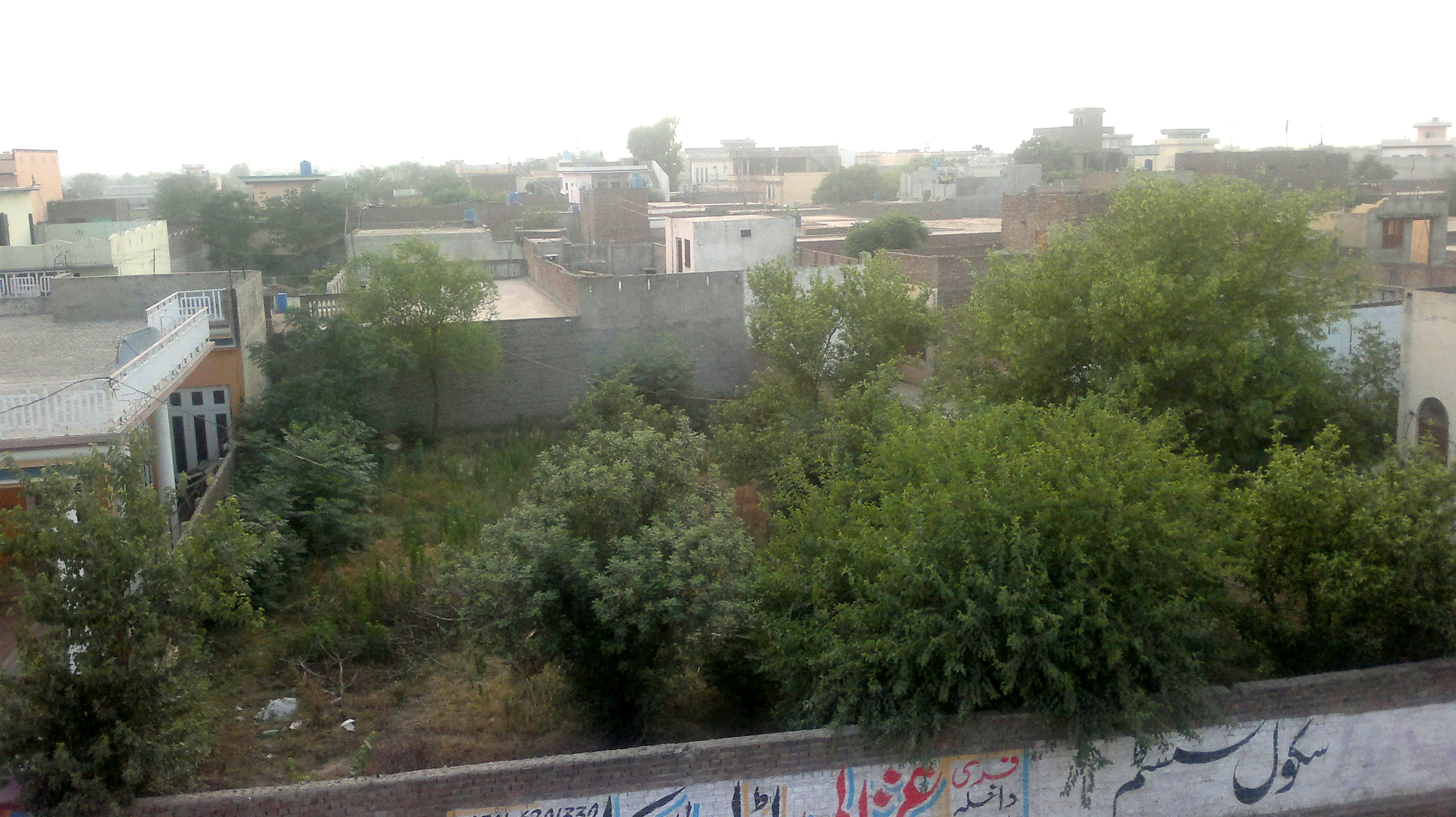 Chakrian